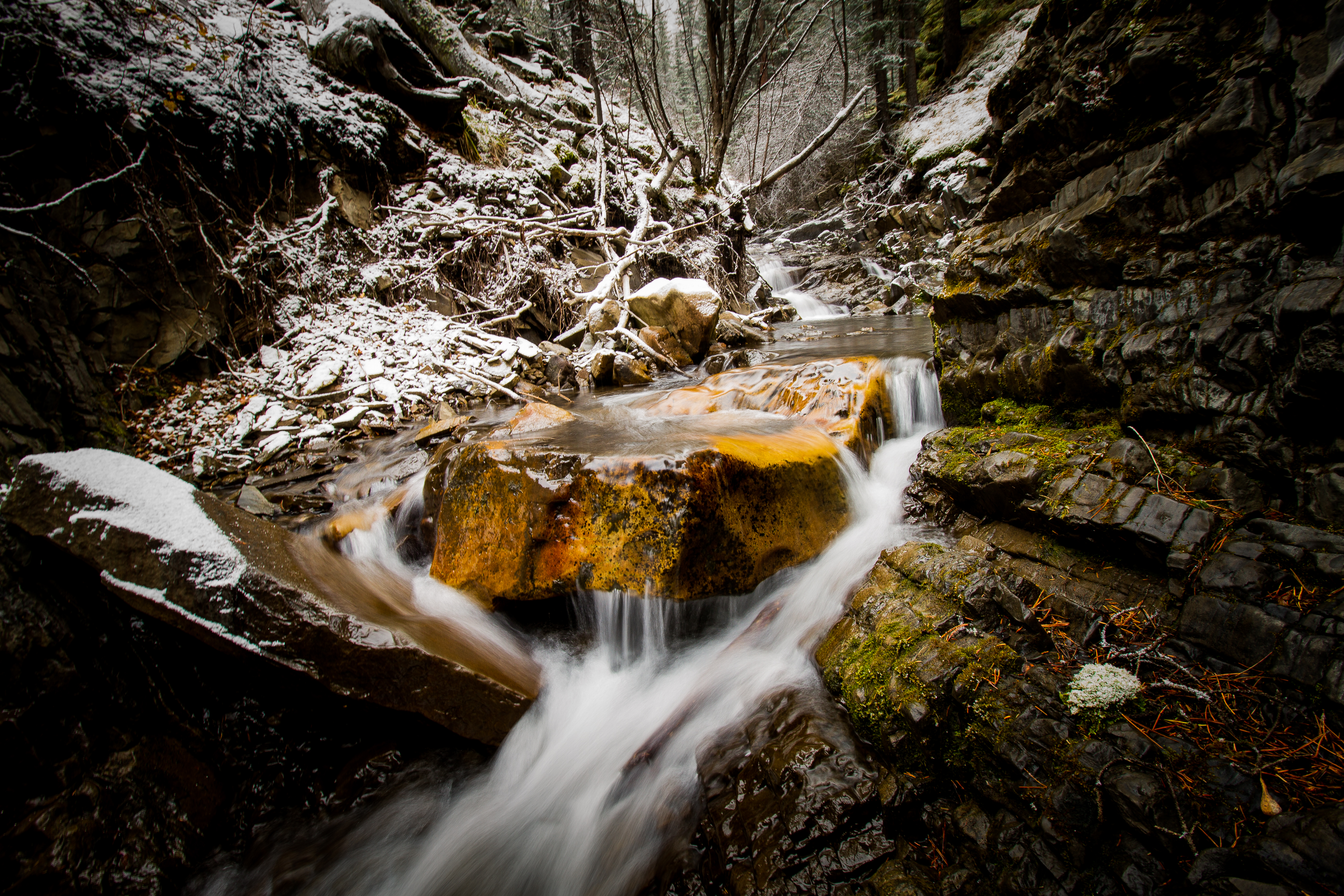 A long exposure photograph of a small waterfall along Elpoca Creek during winter in Peter Lougheed Provincial Park in Alberta, Canada. This photo was taken in a protected area in Canada, Wikidata item Peter Lougheed Provincial Park (Q3364678)